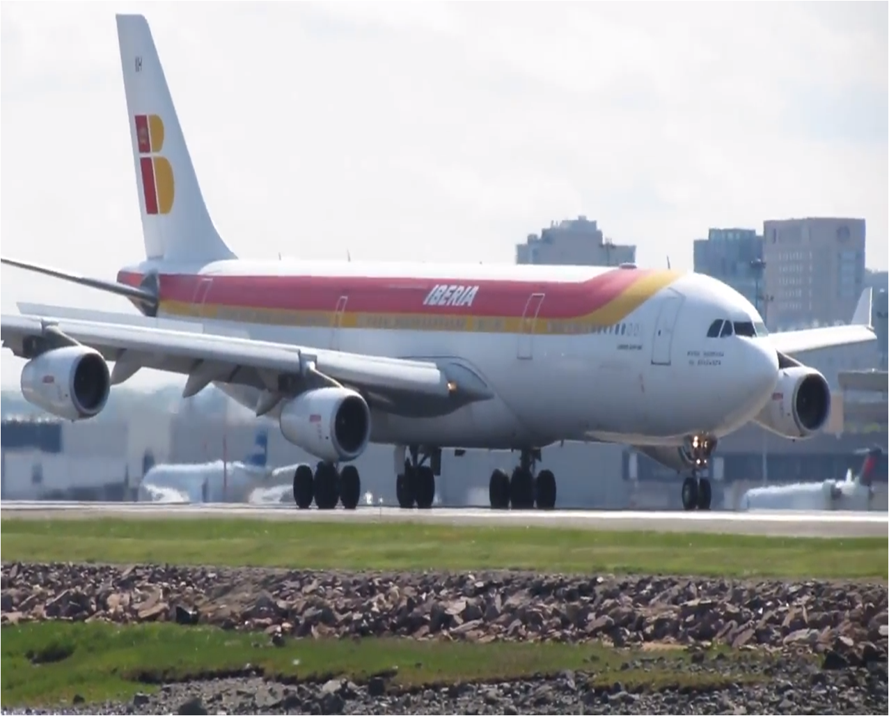 An Iberia Airbus 340-300 aircraft landing at Boston Logan Airport.